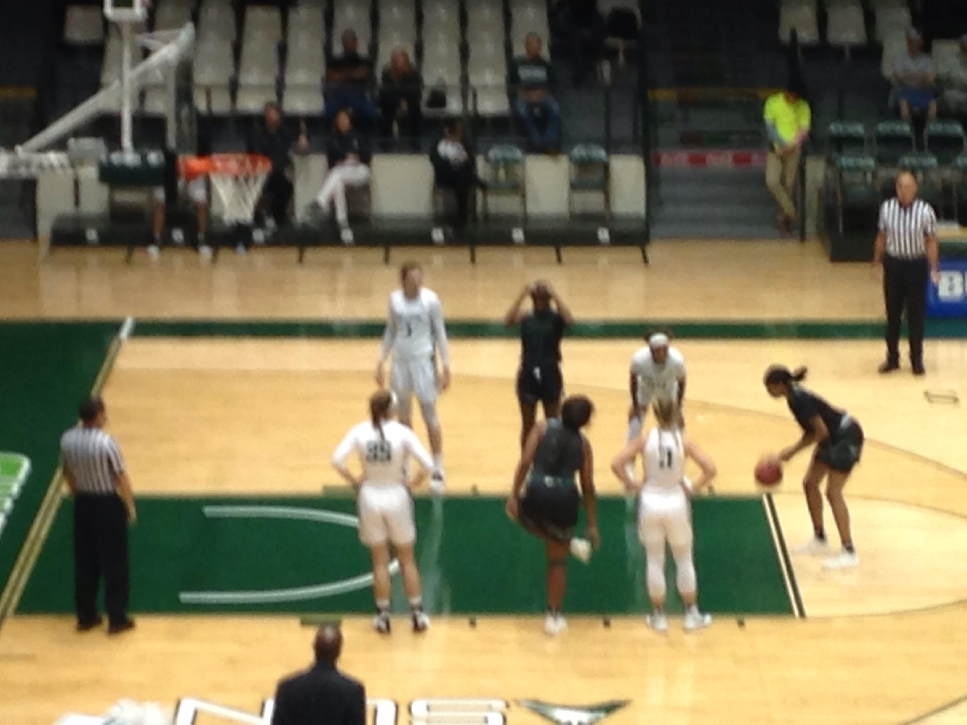 A women's basketball player from Webber International (black) attempts a free throw against Stetson University (white) during a November 30, 2018 contest.